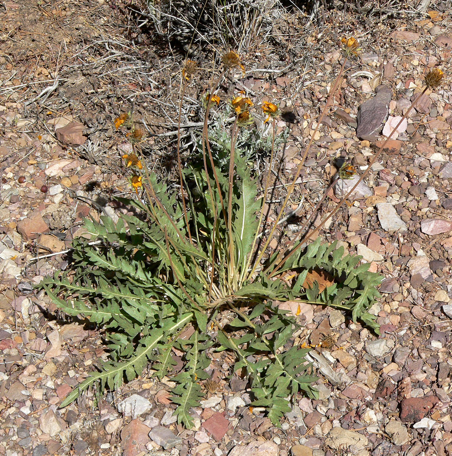 Balsamorhiza hispidula about 200 m west of north/south part of road 592(?), about 2 km NNE of Mount Stirling, Spring Mountains, southern Nevada (elev. about 1900 m)